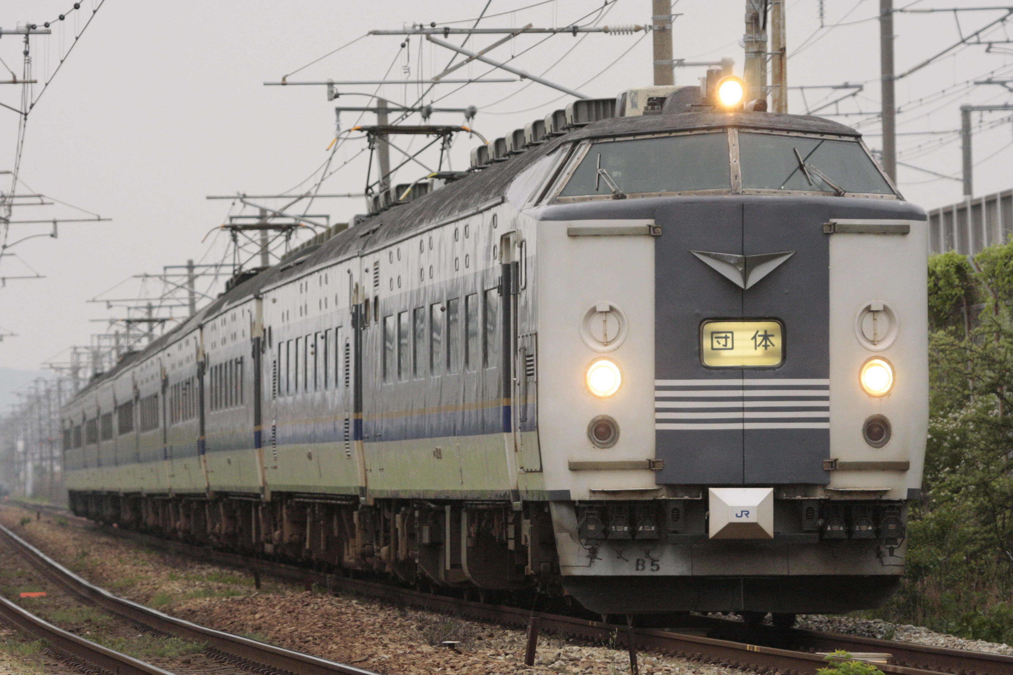 JR West 583 series EMU set B5